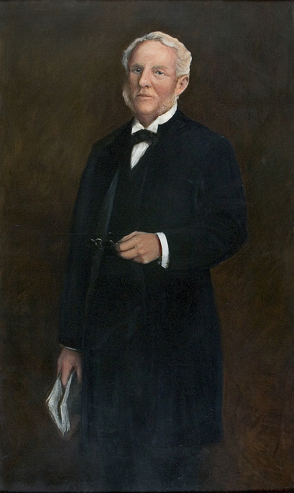 Albert Harkness (b. 1822, d. 1907), American classicist, Professor of Greek at Brown University. Oil on canvas